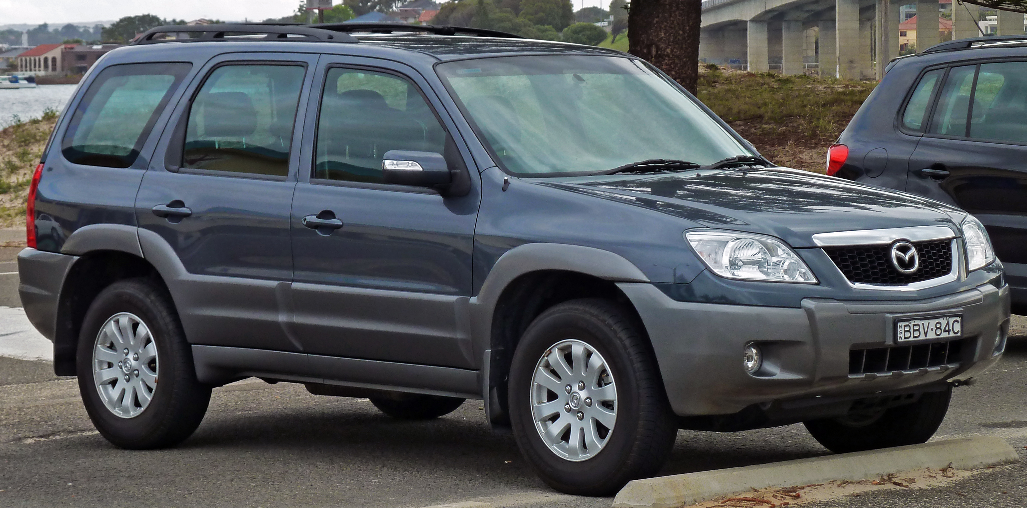 2007 Mazda Tribute (MY06) V6 wagon. Photographed in Sans Souci, New South Wales, Australia.